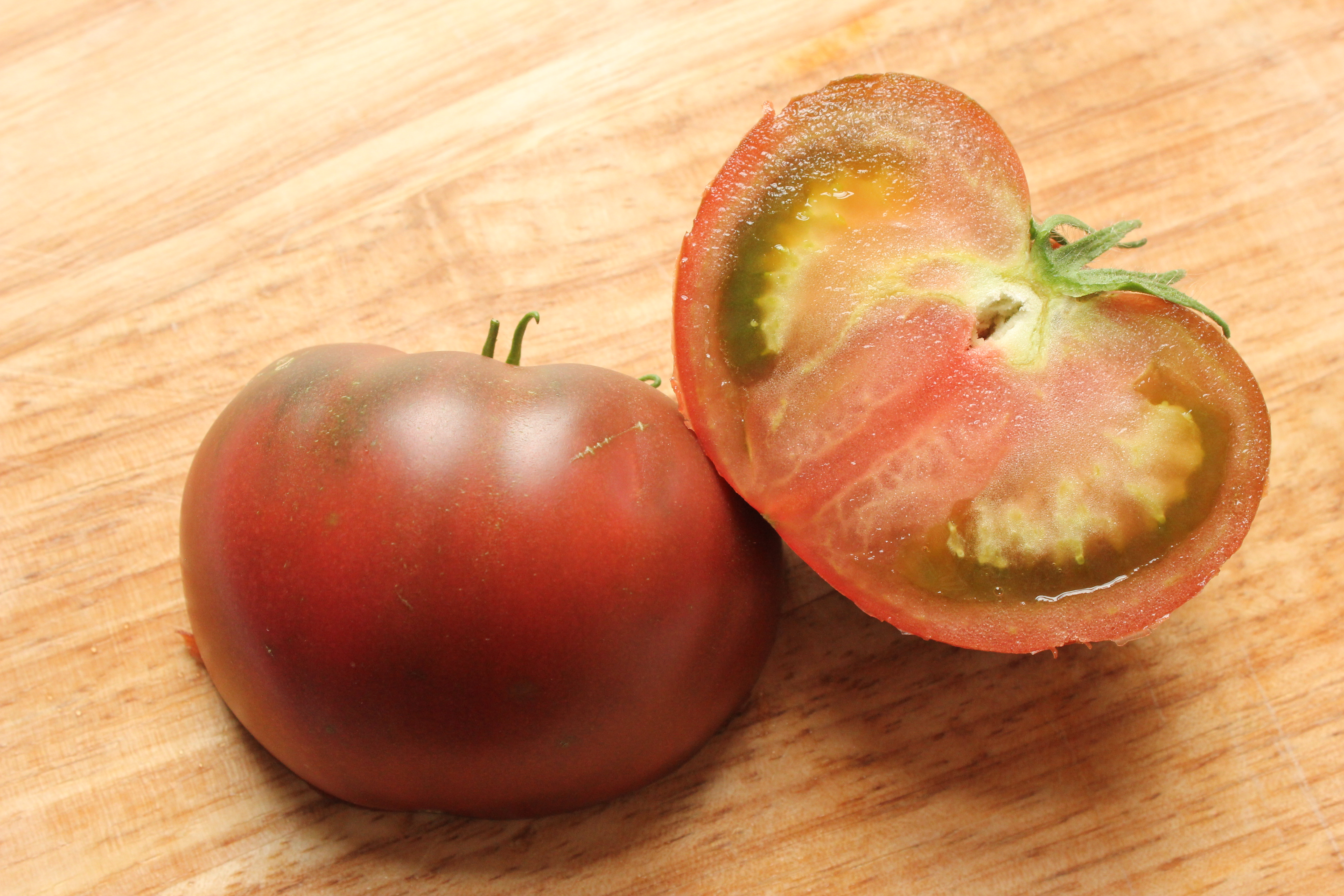 Black Krim heirloom tomato cut open through the top, showing the inside. The tomato is laying on a wooden cutting board.